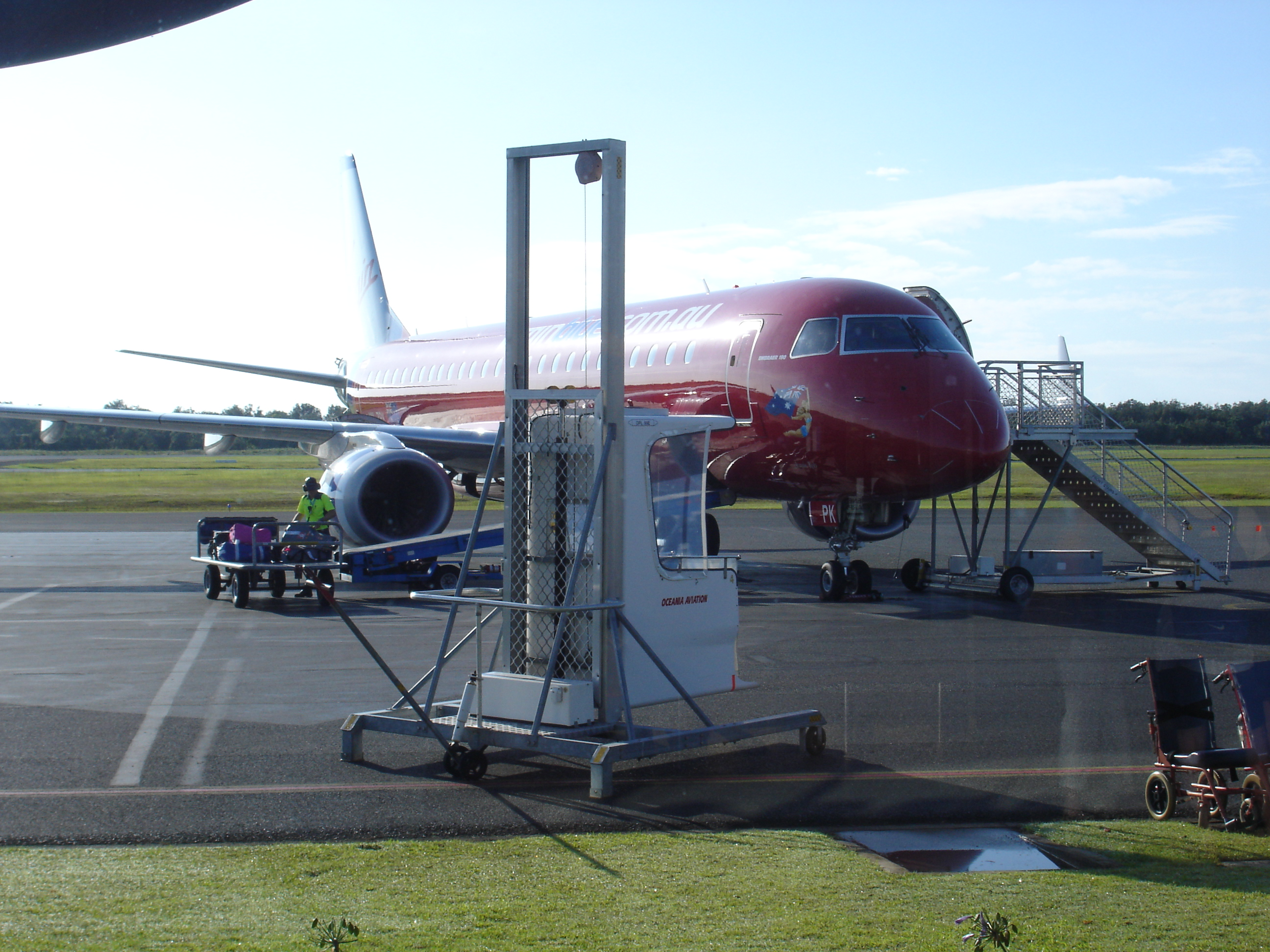 View of a Virgin Blue E190, named "Aussie Rob", (taken from Observation Deck) that has just arrived from Sydney (DJ1161), preparing for its return journey (DJ1162)